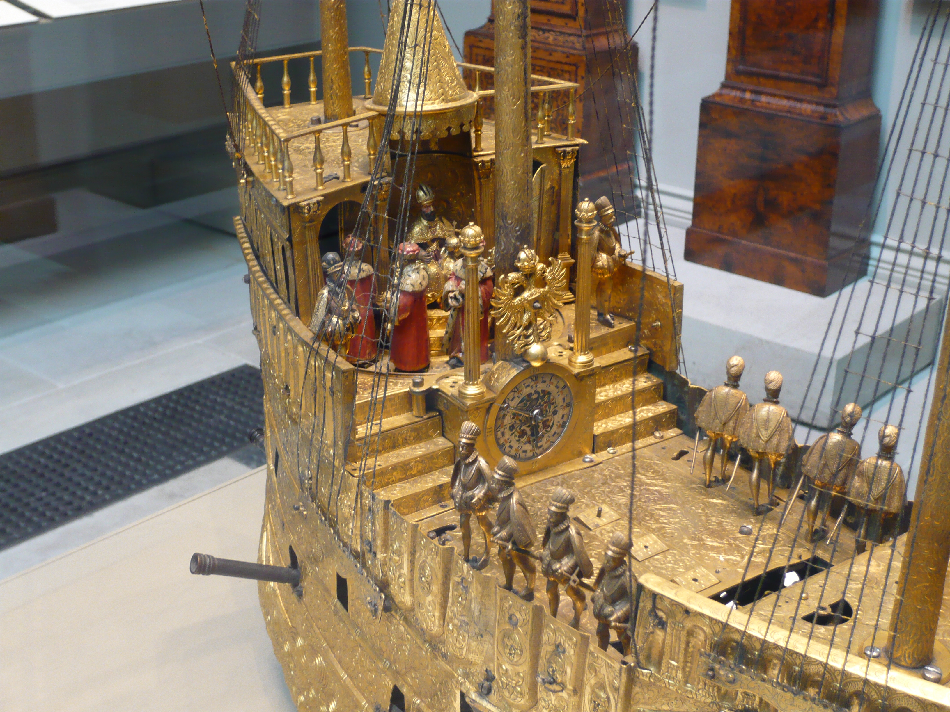 c. 1585. Mechanical medieval galleon intended to announce banquets at court. The entertainment began with music from a miniature organ in the hull, drumming and a procession. Afterward the ship would travel across the table. When it stopped the front cannon would fire. The figure on the throne is the Holy Roman Emperor. A procession of seven Electors (princes) pass before him during the music, preceded by three heralds. At the base of the main mast a small clock shows the time. Sailors in the crow's nest use hammers to strike hours and quarters. By Hans Schlottheim, Augsburg, Germany. [the licence on this image allows for commercial use. For such uses, however, permission from the British Museum would also be required - See the talk page of Hoxne Hoard on Wikipedia!]